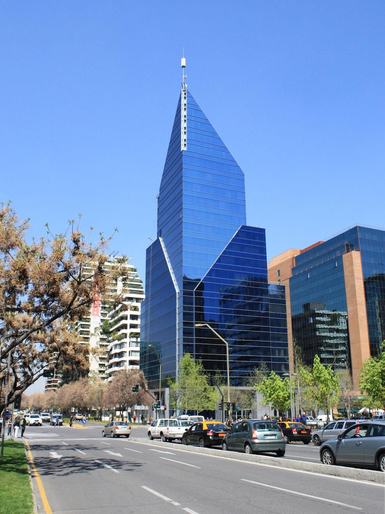 This is the view looking south along El Golf from Plaza Loreto, Santiago, Chile.El Golf, Santiago